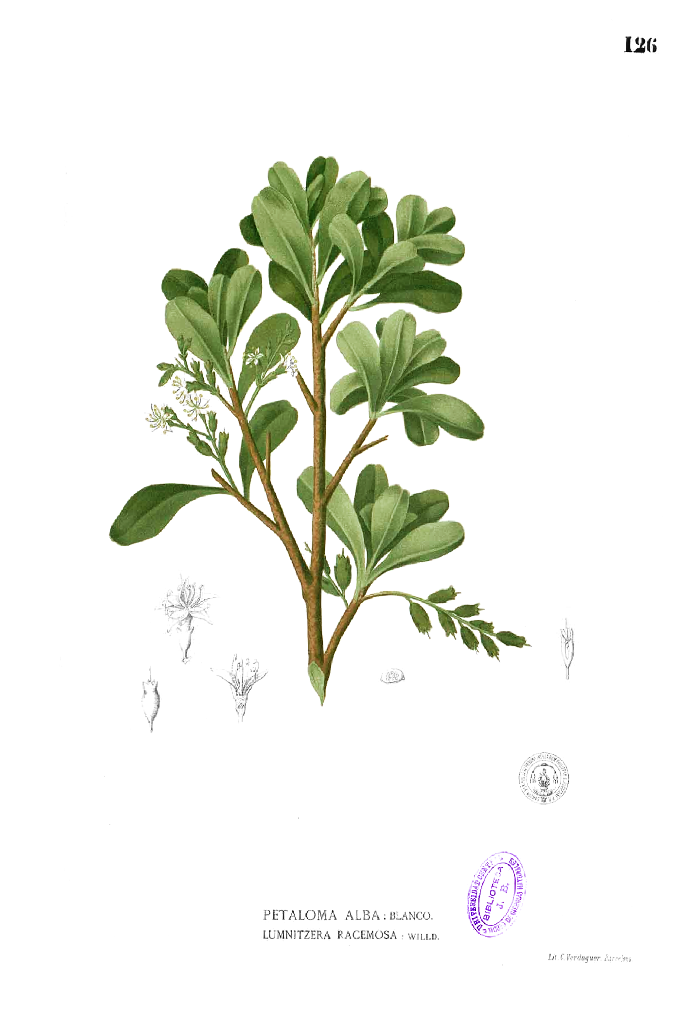 Plate from book Lumnitzera racemosa